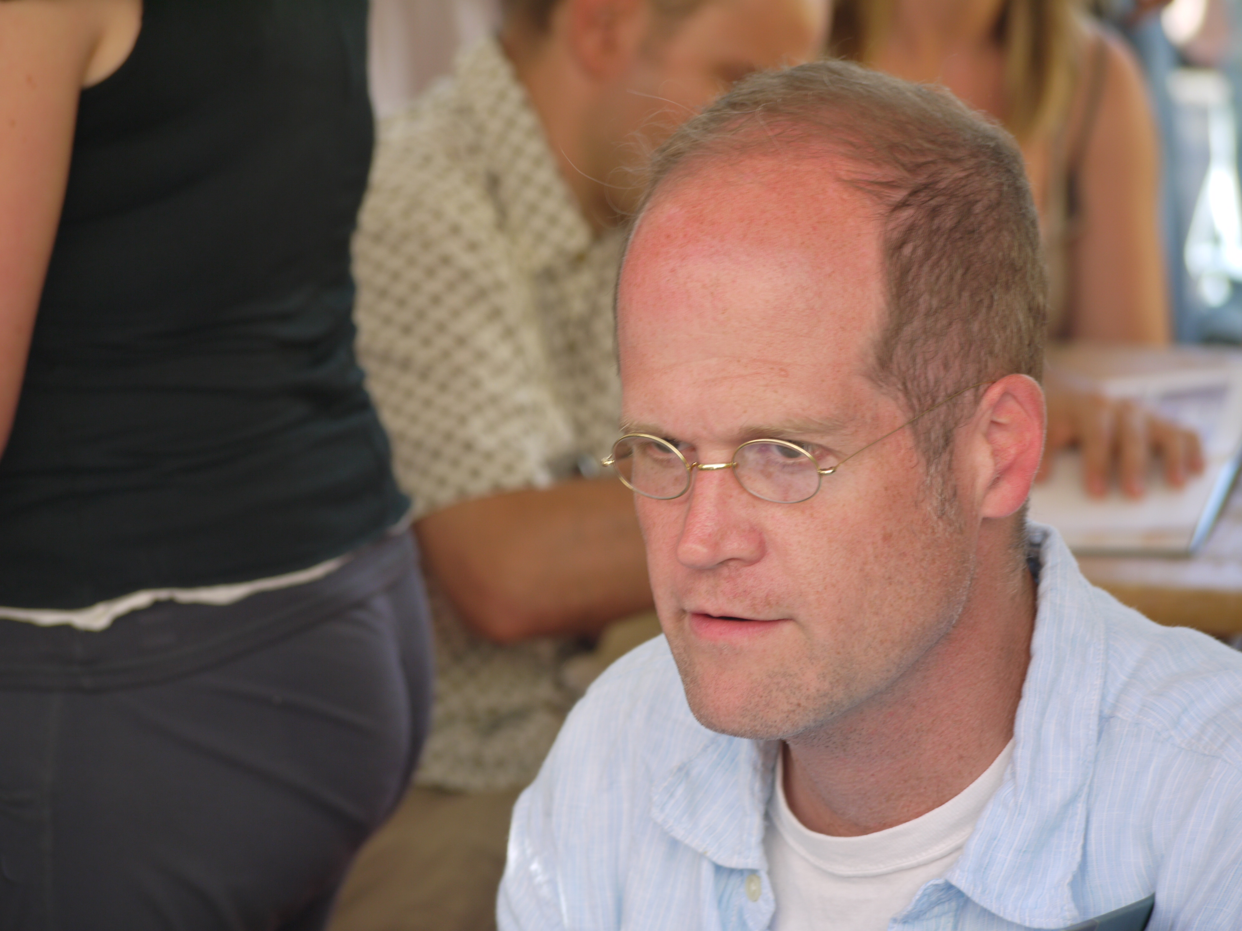 Photograph taken during the 2009 edition of the Comic Strip Festival of Sollies Ville in France. - OpenStreetMap(Info)